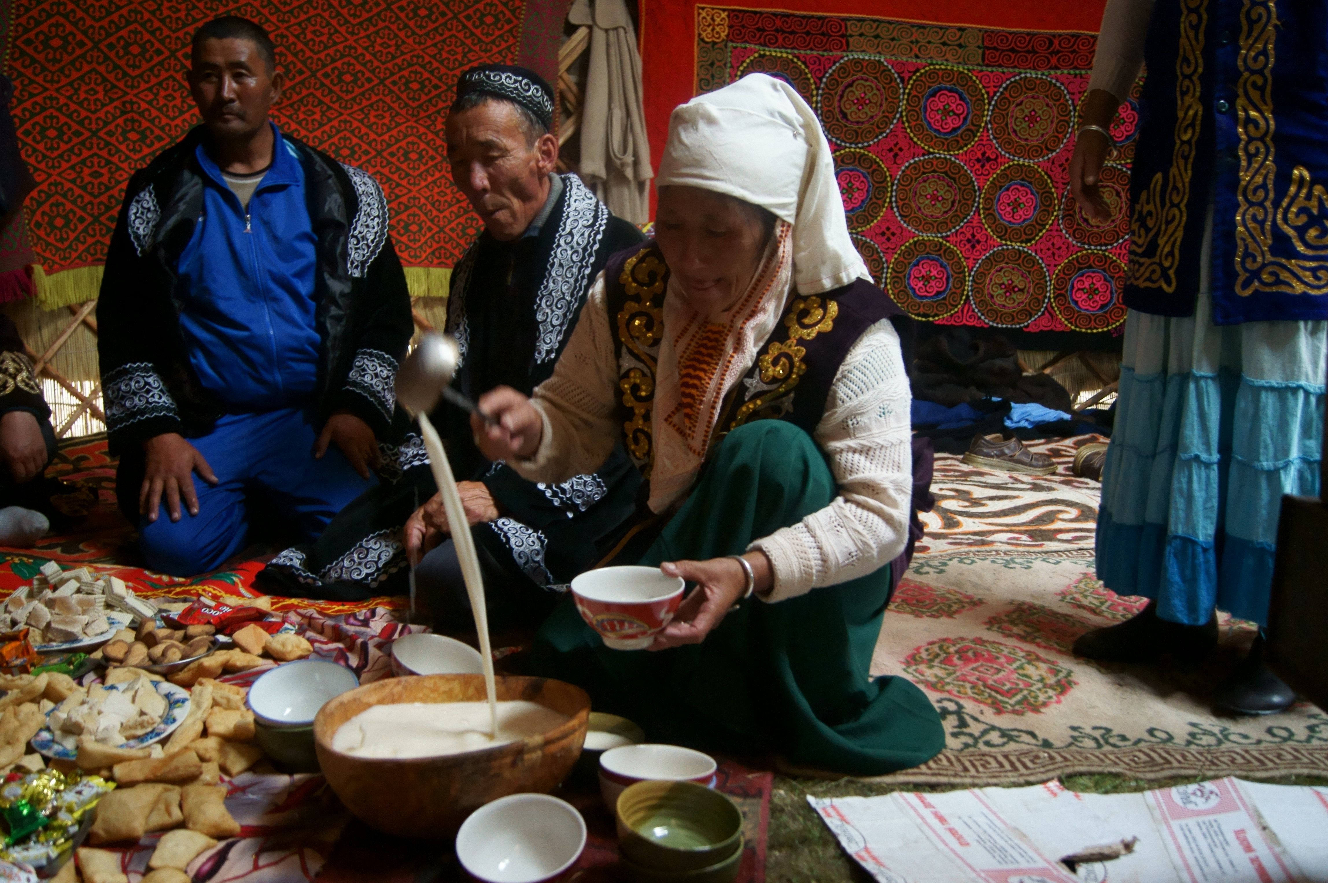 Kazakh woman in a ger in Tavan Bogd National Park